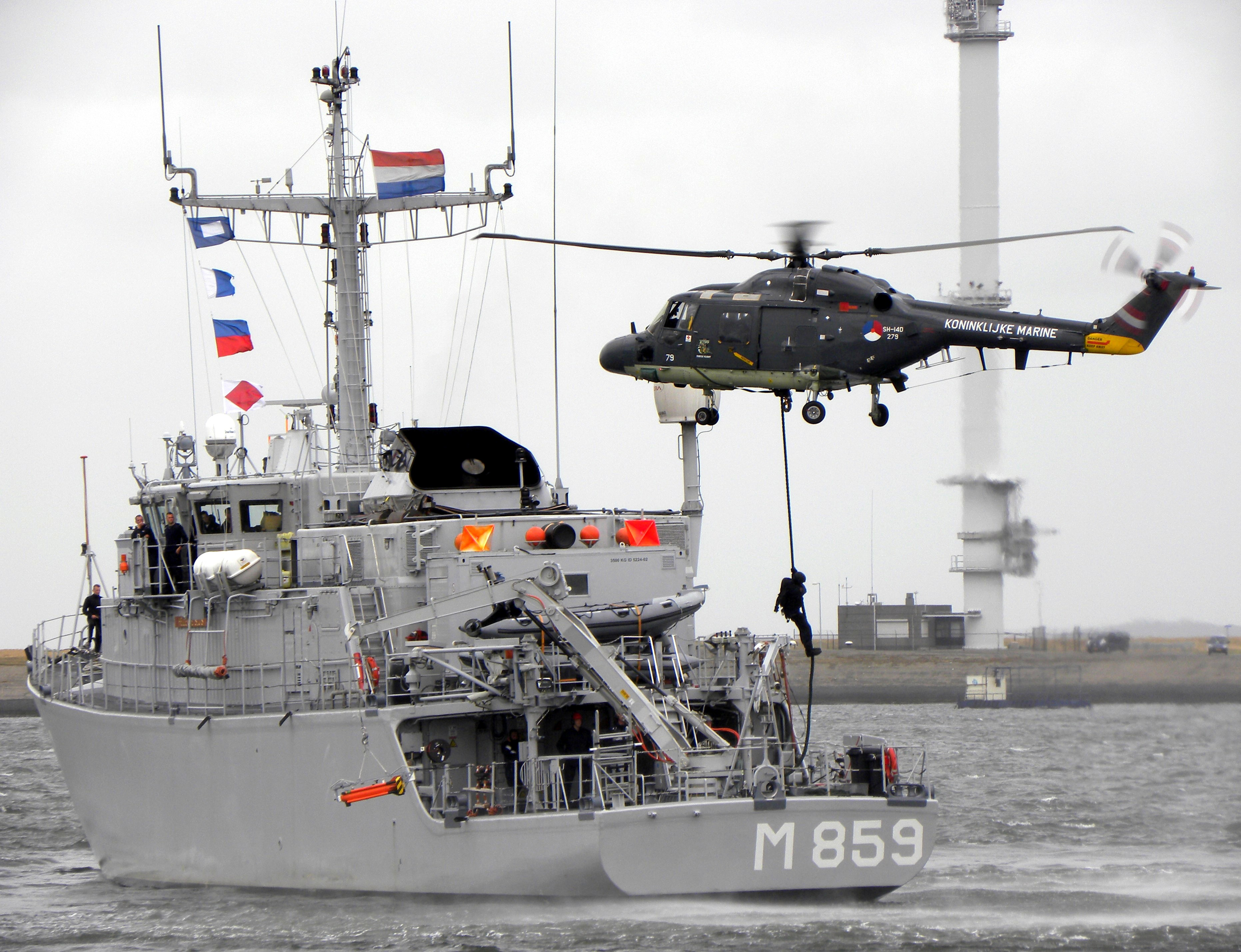 Westland Lynx 279